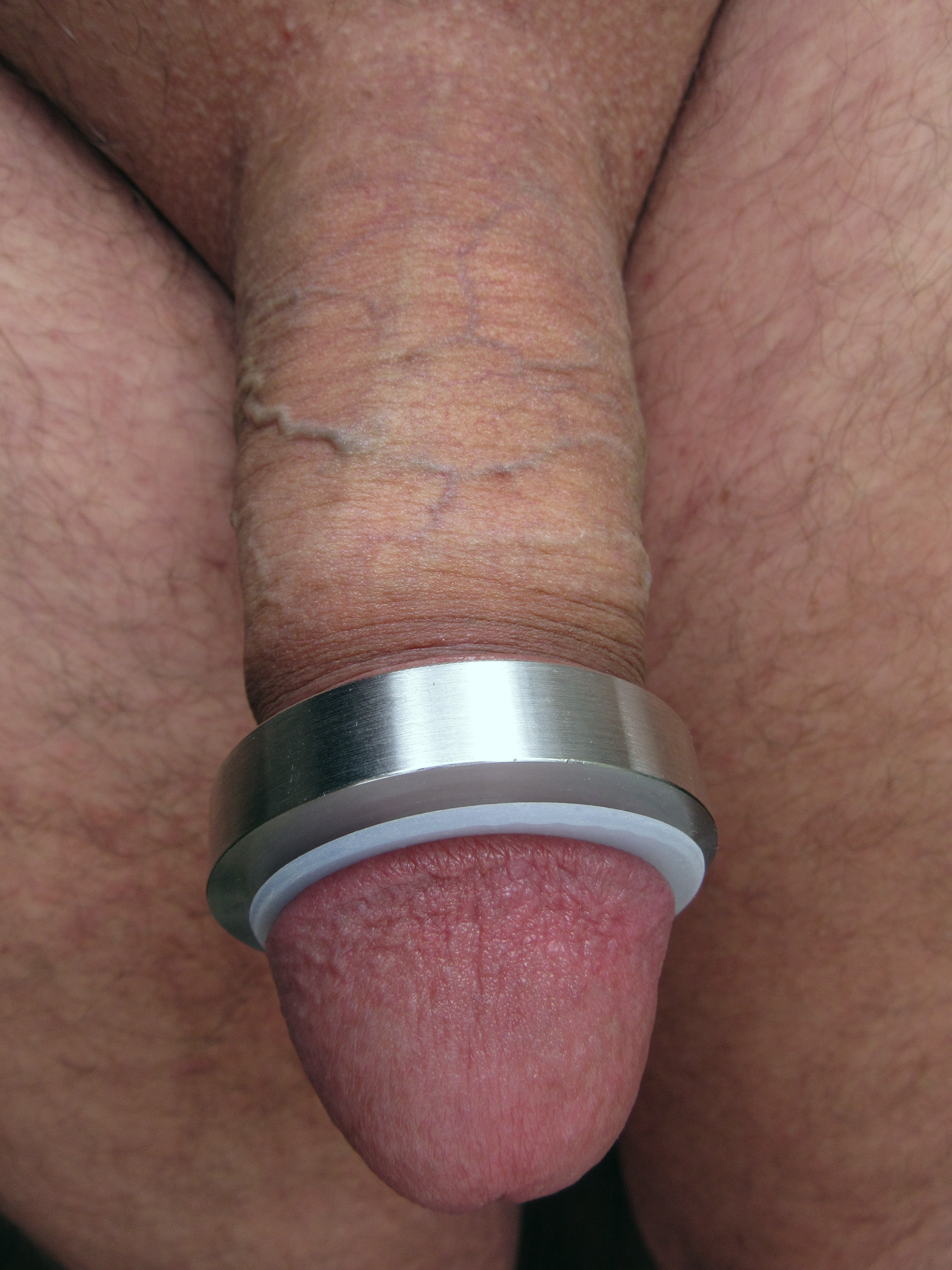 Penis stretching with weight